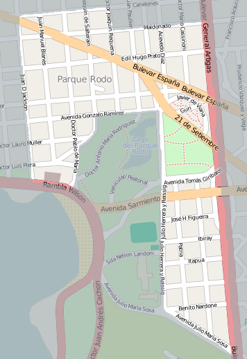 Street map of Parque Rodo (barrio), Montevideo, exported from OpenStreetMap. I added shading to delimit the barrio. This map may be incomplete, and may contain errors. Don't rely solely on it for navigation.